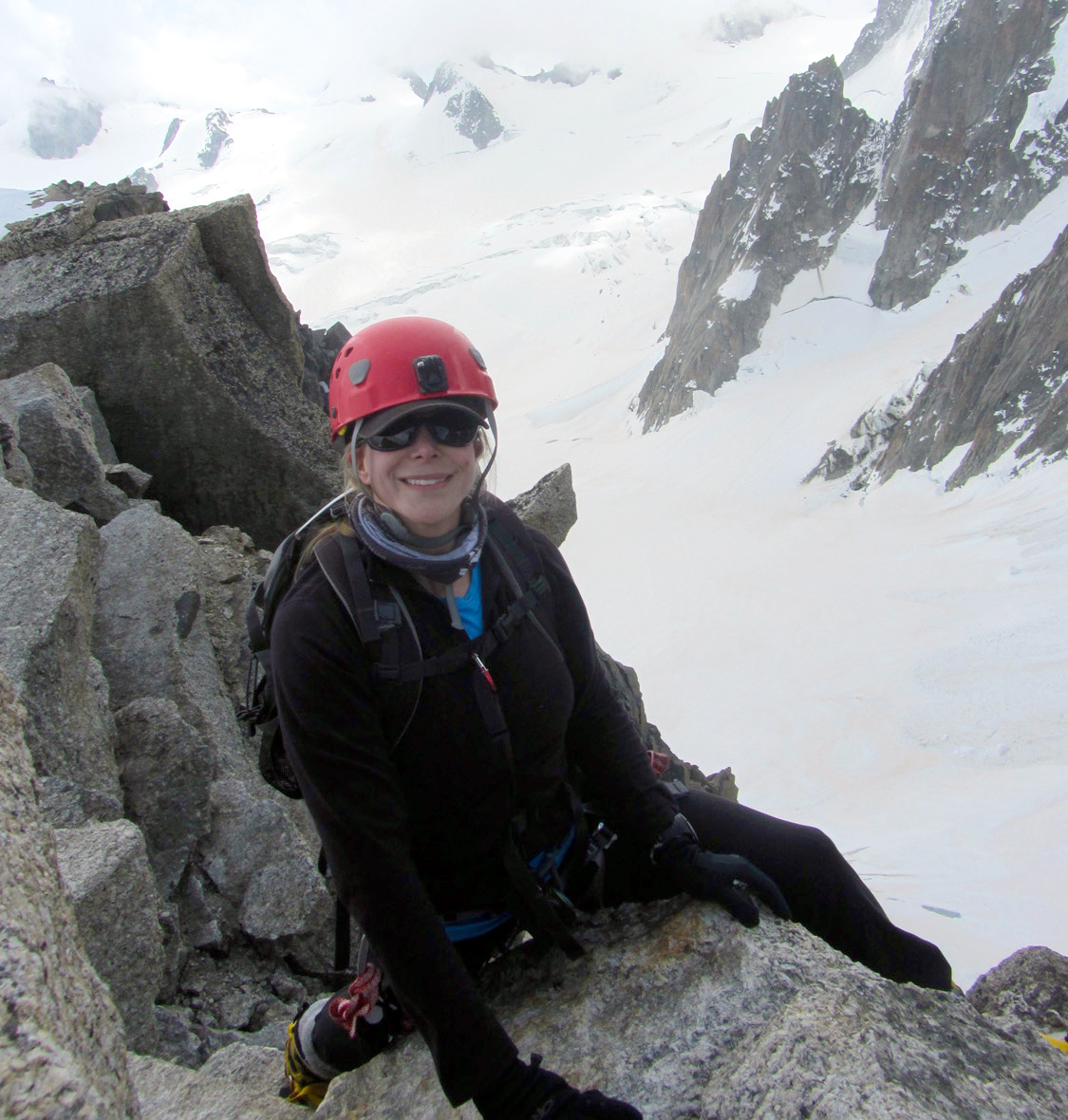 Vanessa O'Brien sitting on a rock at the top of the Aiguille du Midi, Chamonix France. This photo was taken by Vanessa O'Brien using a timer and placing the camera on a rock.